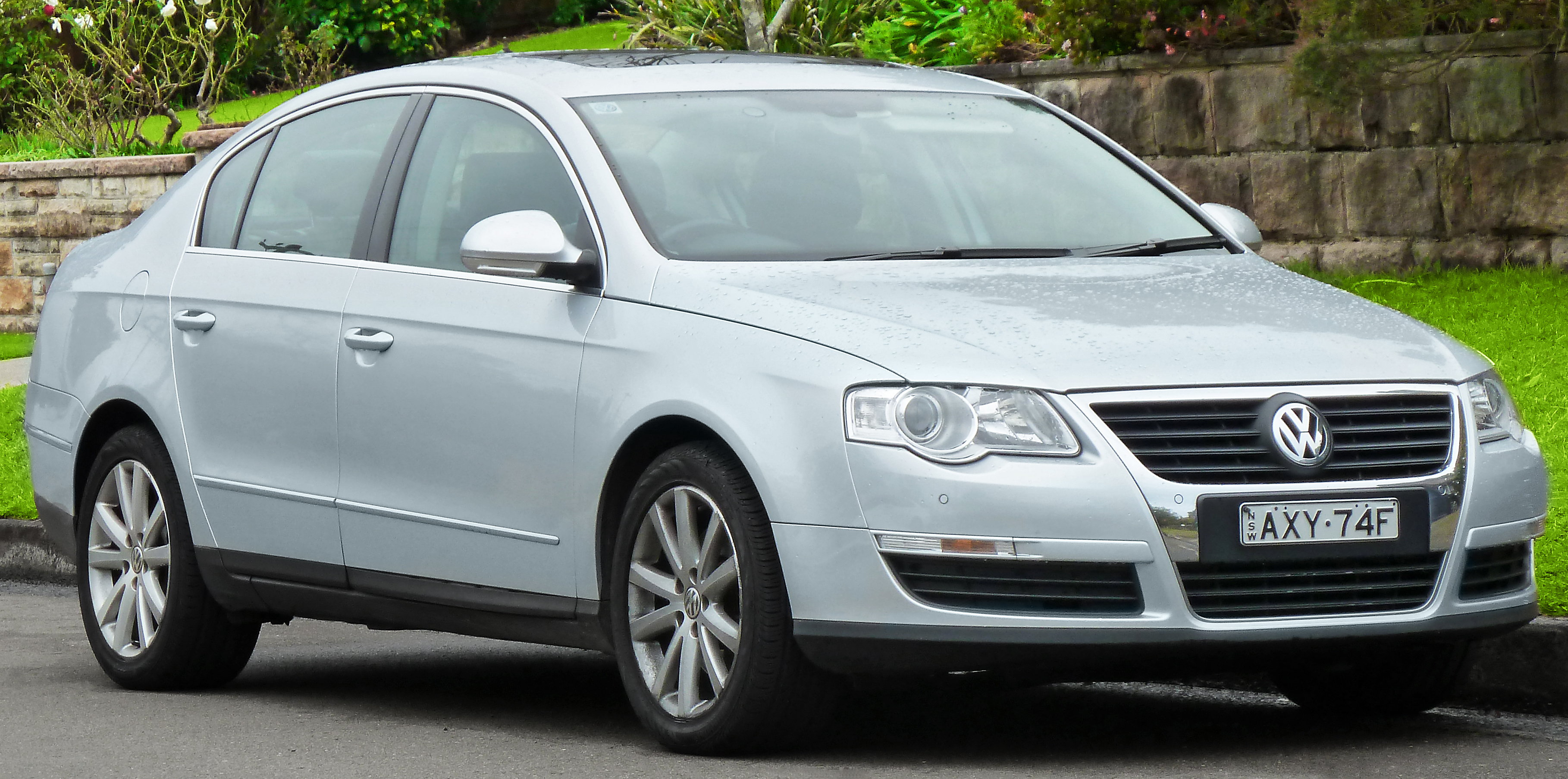 2006–2010 Volkswagen Passat (3C) sedan. Photographed in Roseville, New South Wales, Australia.